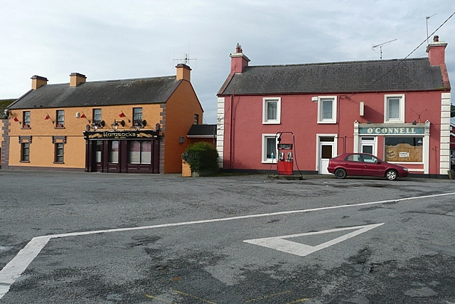 Brideswell village centre As one would expect, a colourful pub, Hamrocks, and a colourful shop, O'Connell.